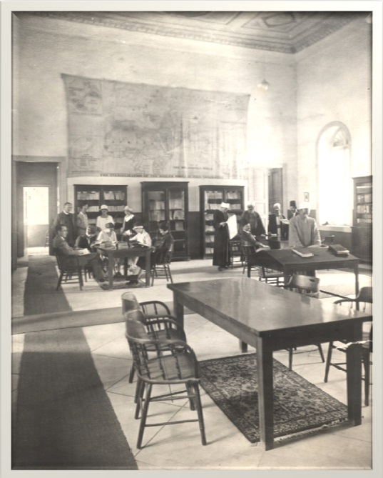 A view of the interior of the reading room of the School of Oriental Studies at the American University in Cairo, Tahrir Campus, Cairo